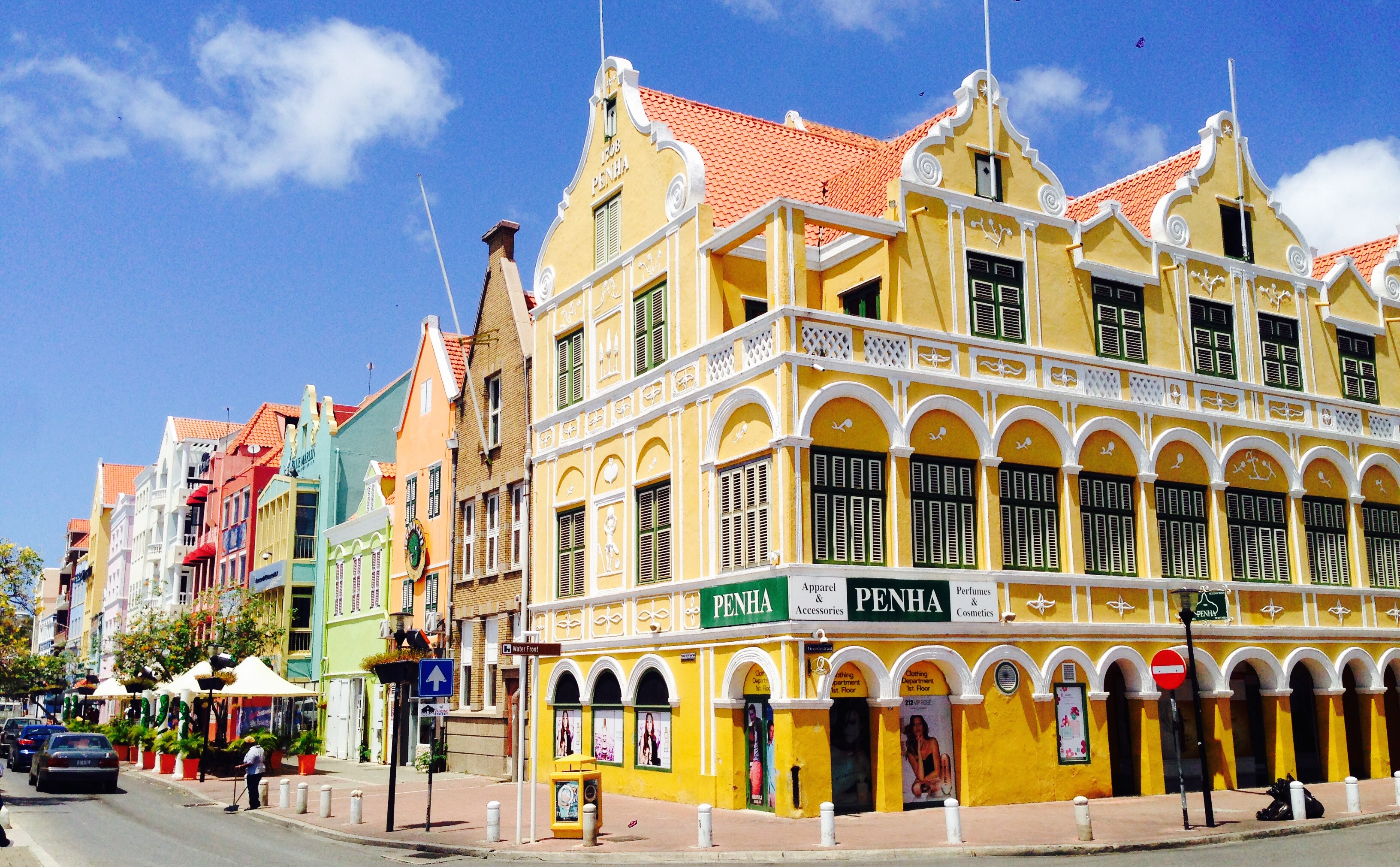 The Penha building built in 1708